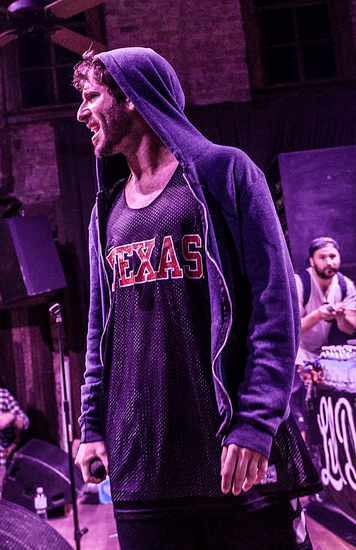 Lil Dicky live in September 2014 at Stubbs, Austin Texas